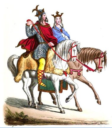 Baldwin I of Flanders and Judith of France